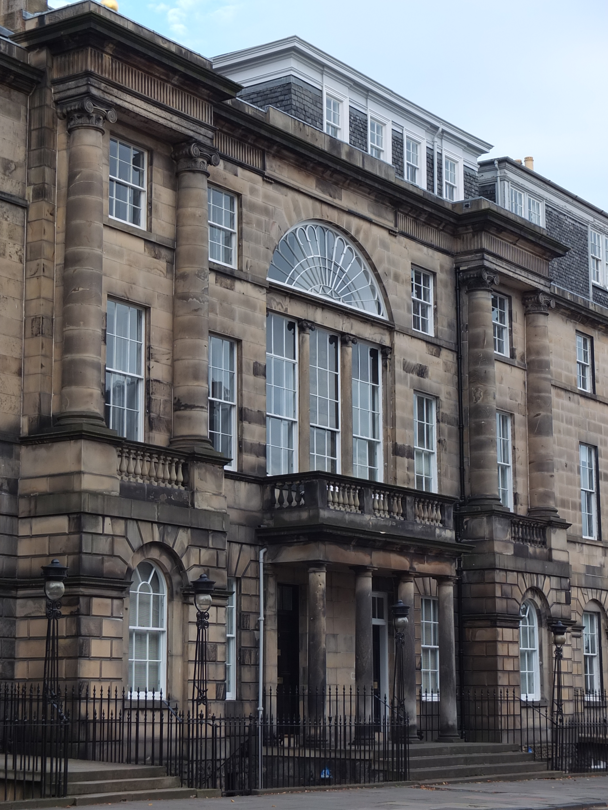 12-17 Charlotte Square